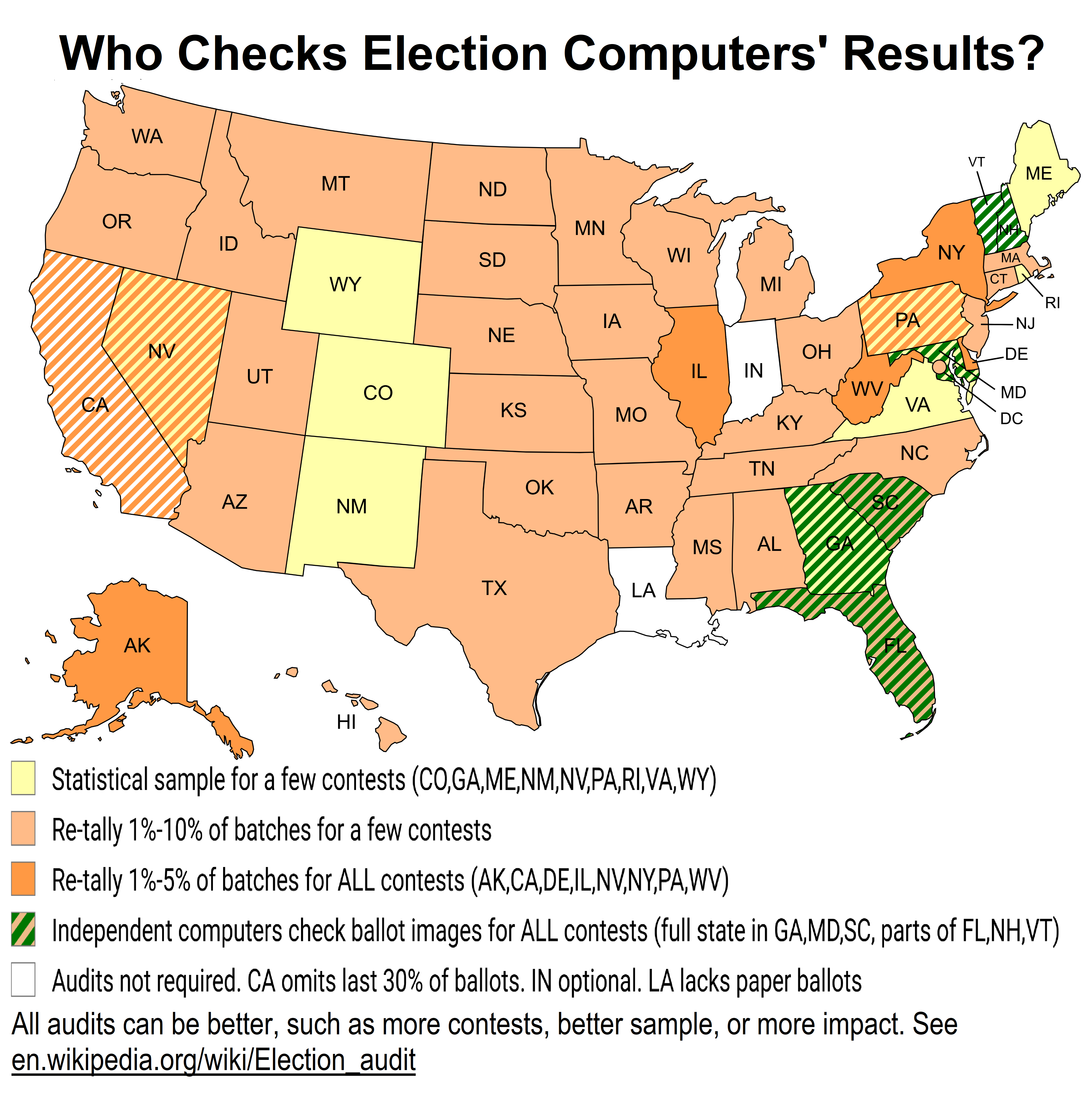 Map compares US states on the number of election contests they audit, if any; whether by hand or machine; and whether the audit changes results, or is just informational. Information drawn from which is primarily based on Created with tools from